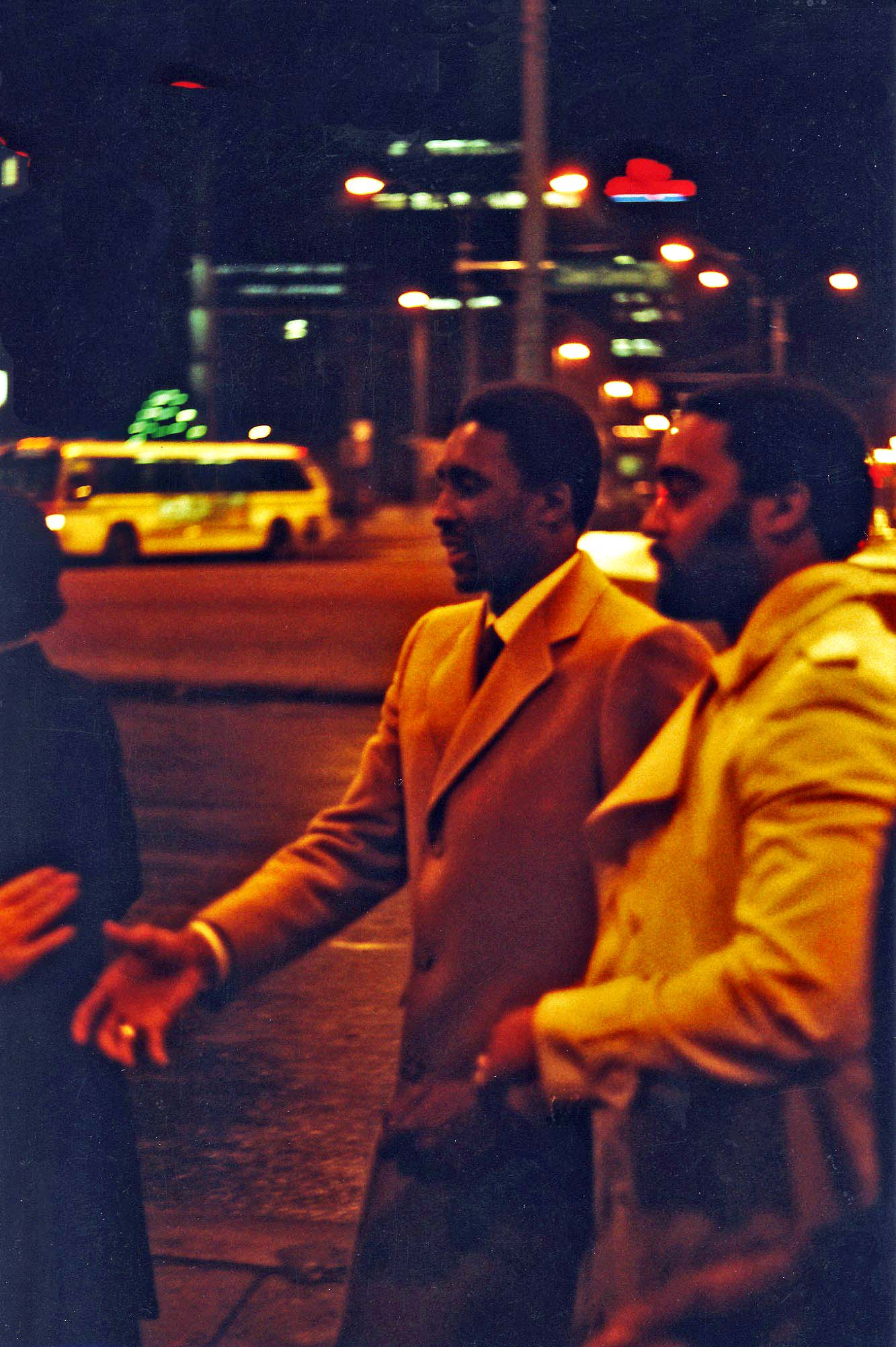 Tommy Hearns (center) ca. Dec. 1981, Detroit Michigan USA